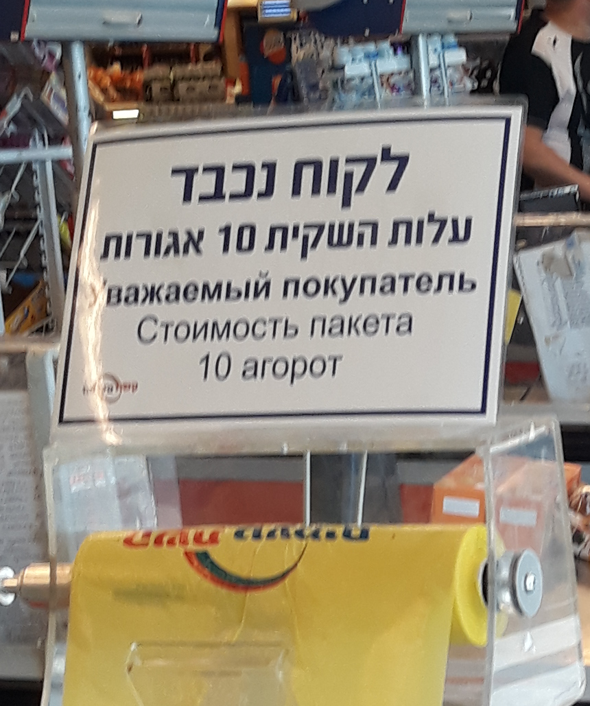 The plural form of 'agora' in Israeli Russian